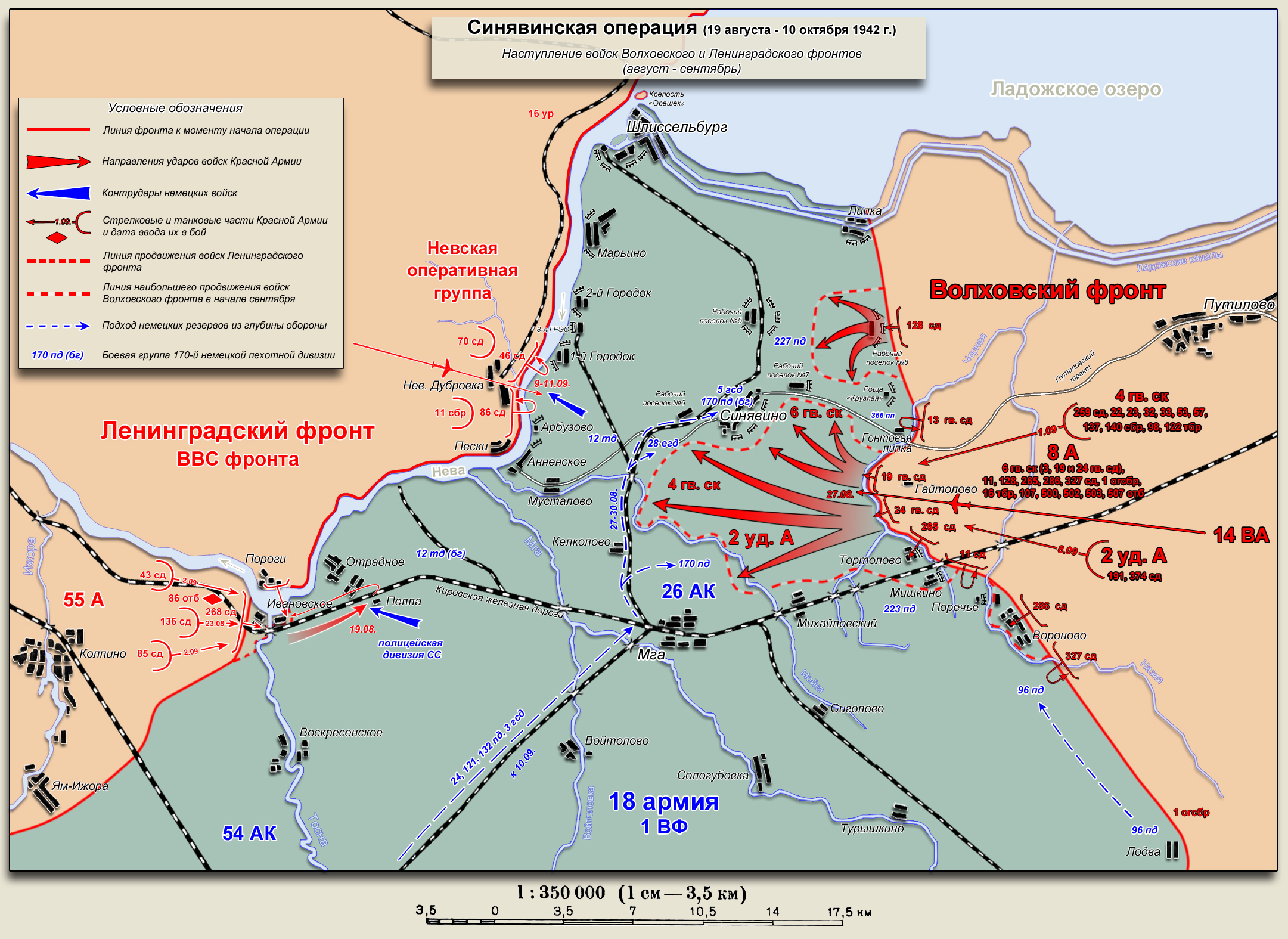 Sinyavino Offensive (1942). Soviet main offensive.